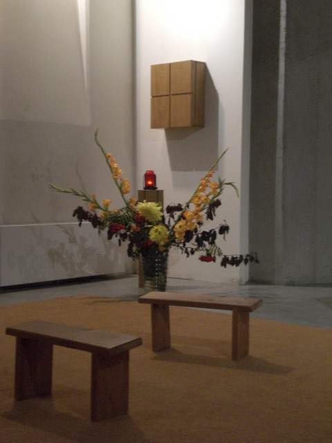 Interior of the Chapelle de la Résurrection, Van-Maerlantstraat, Brussel: Crypte (tabernacle)